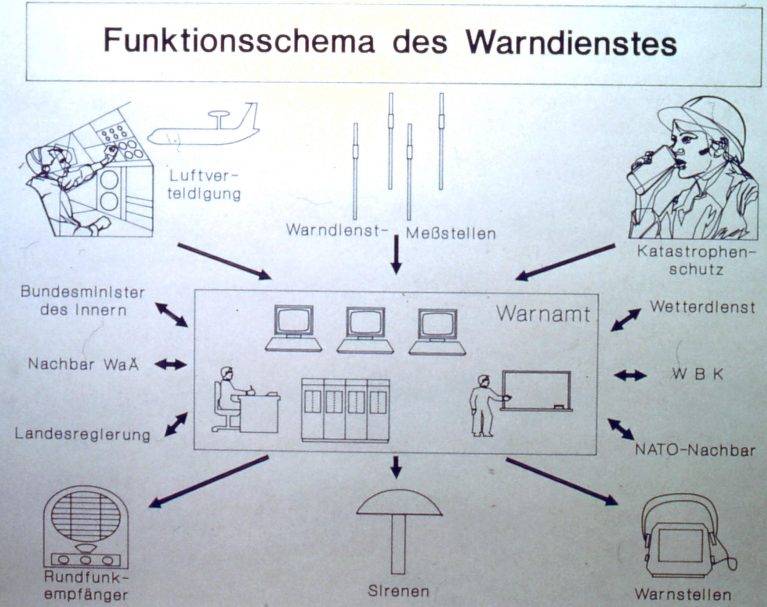 Warndienst how to explanation